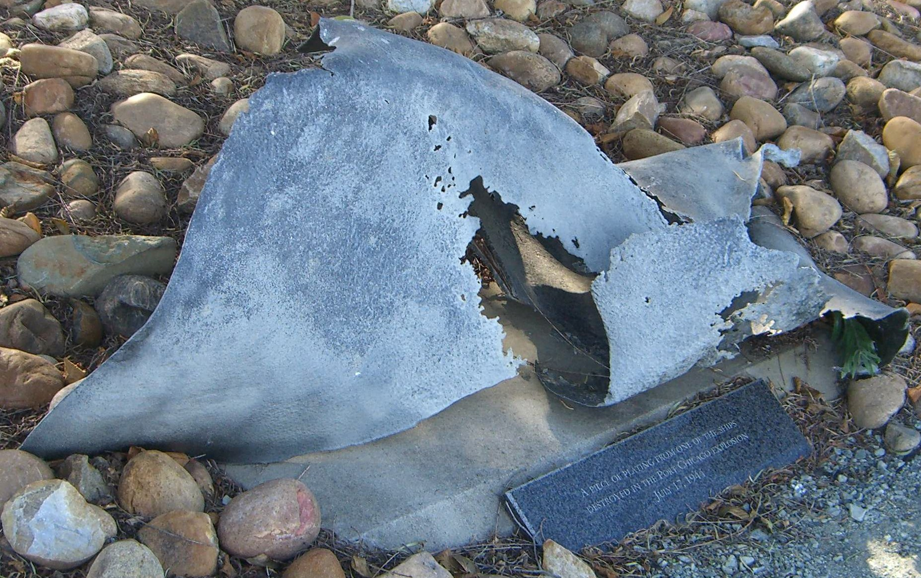 SS E.A. Bryan or SS Quinault Victory